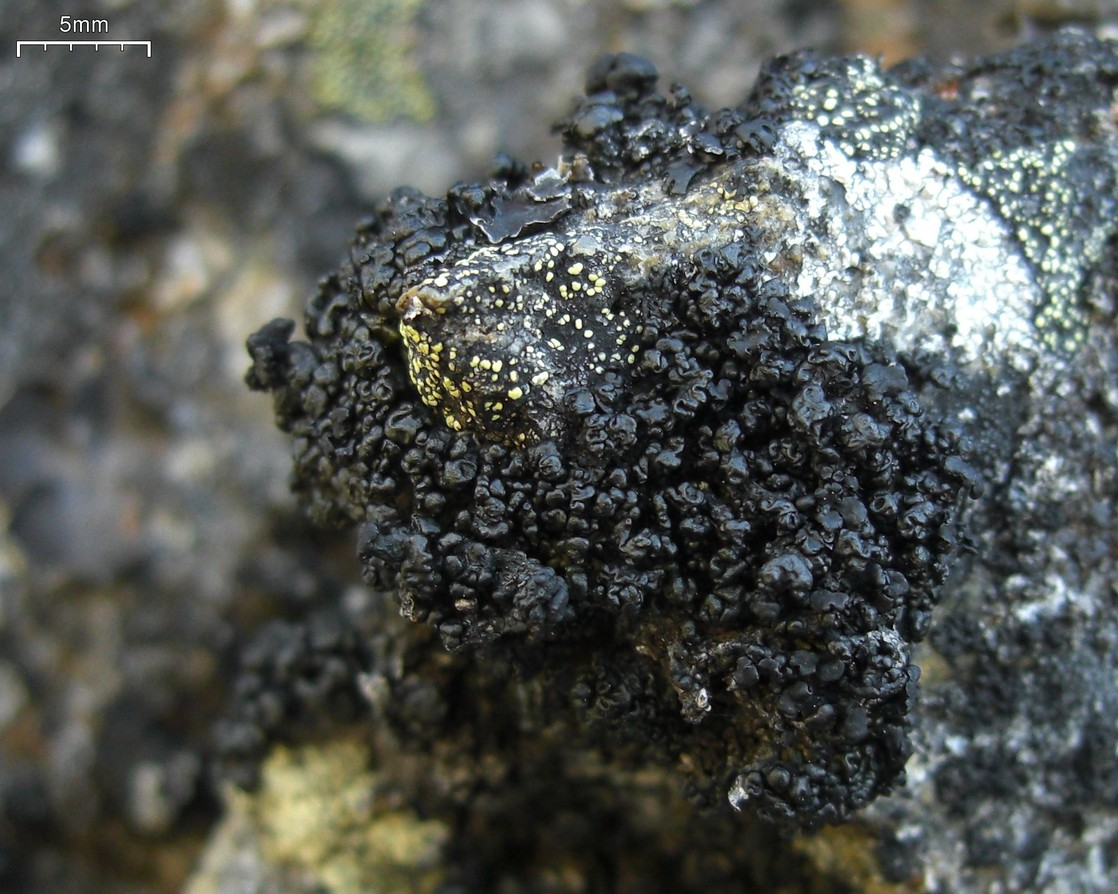 Lecanora pringlei (Tuck.) Lamb 20090820.66 Raft Mountain, Wells Gray Park, BC